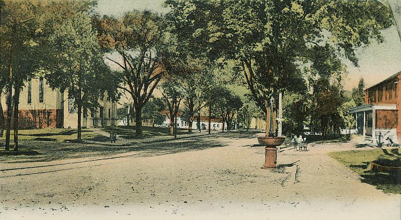 View of Main Street, Westborough, Massachusetts; from a c. 1905 postcard published by C. S. Henry & Company.